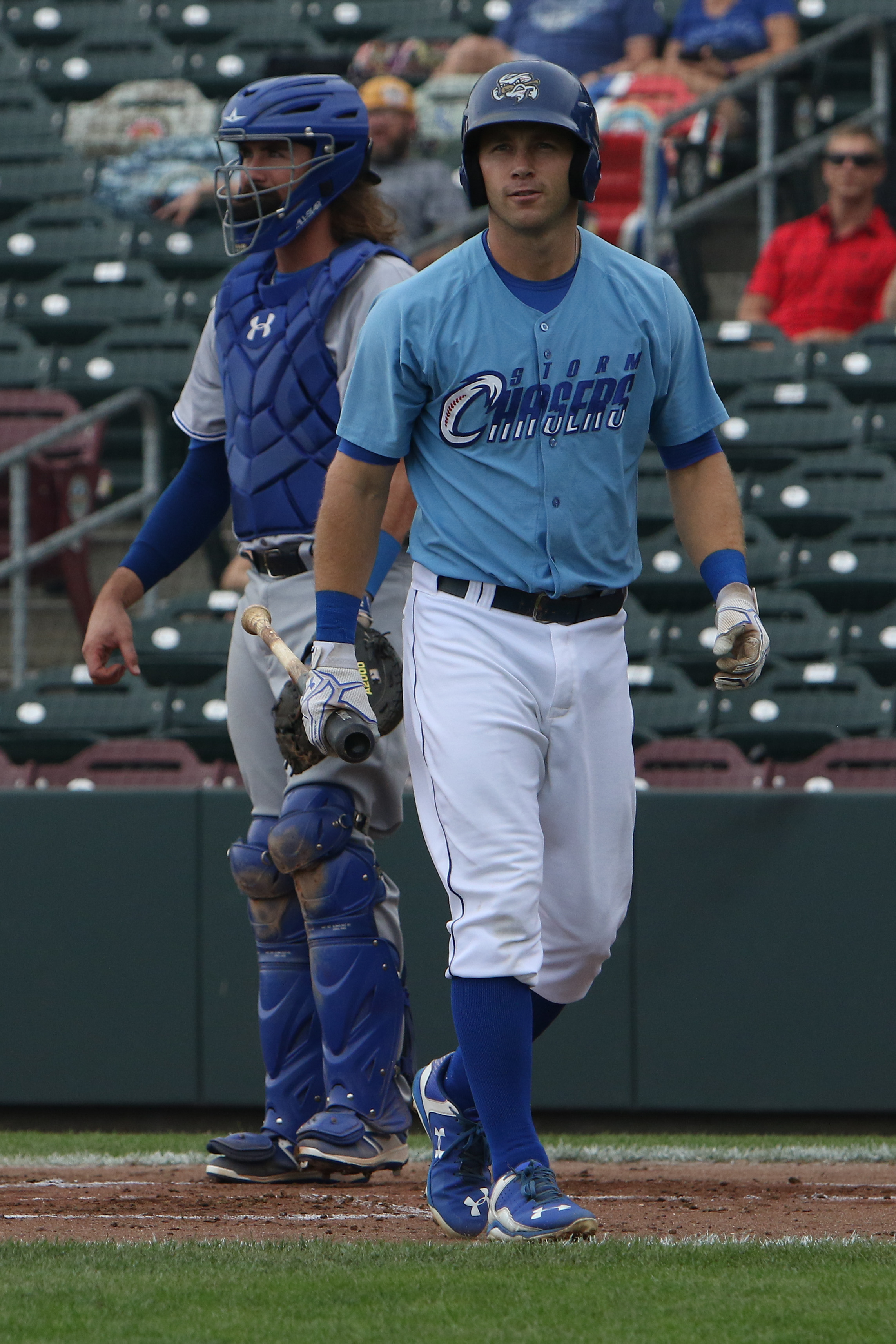 Minda Haas Kuhlmann | 2016 USAGE INSTRUCTIONS: You are welcome to share or publish to your own site or social media account, but you MUST credit me, Minda Haas Kuhlmann, or by my Twitter handle (@minda33) or Instagram (minda.haas).